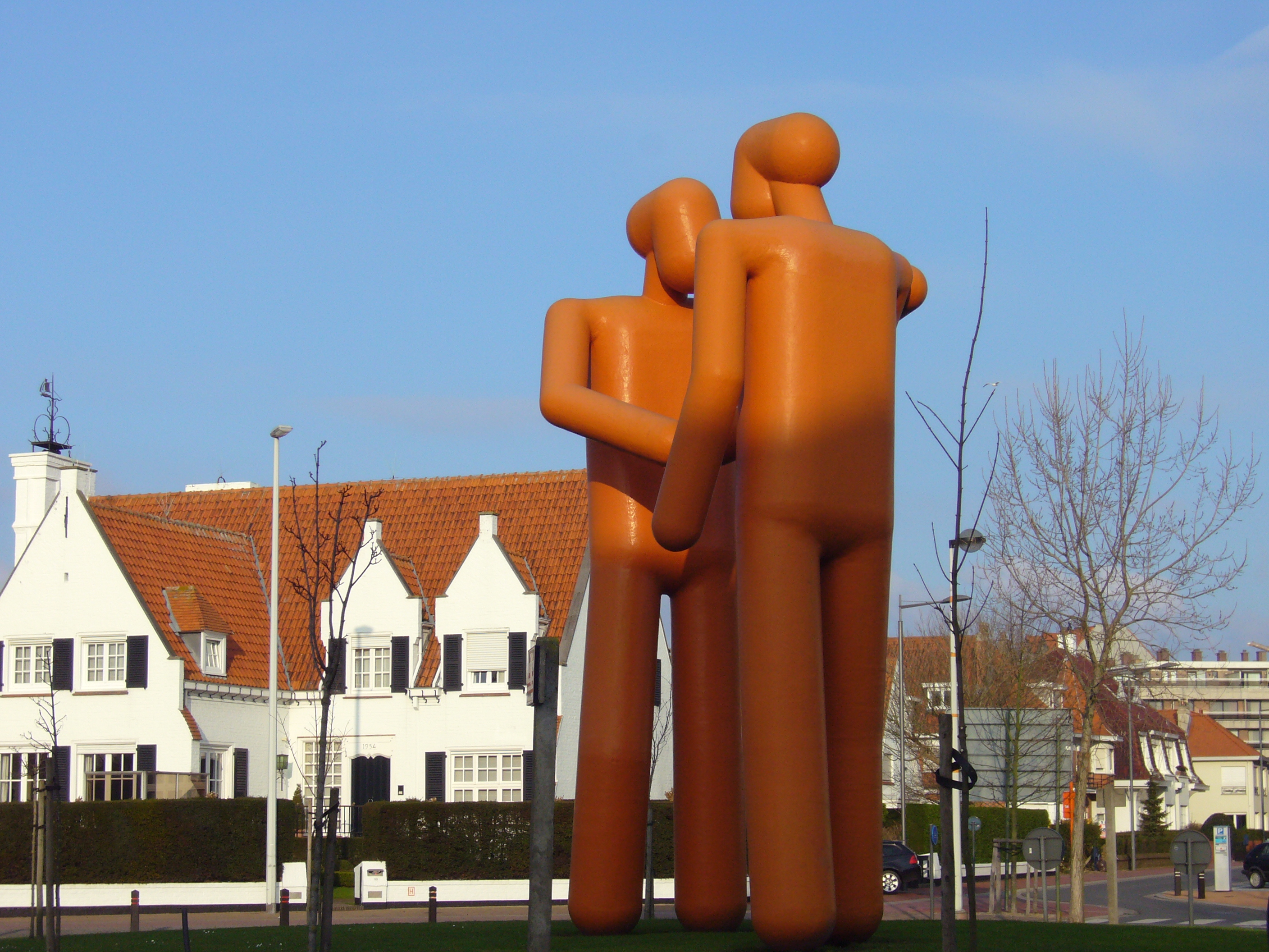 Twee Groetende AVL-Mannen by Joep van Lieshout (NL, 1963). Placed in 2000. Location: Knokke, Belgium: Abraham Hansplein. (Junction Elizabetlaan - Koningslaan)